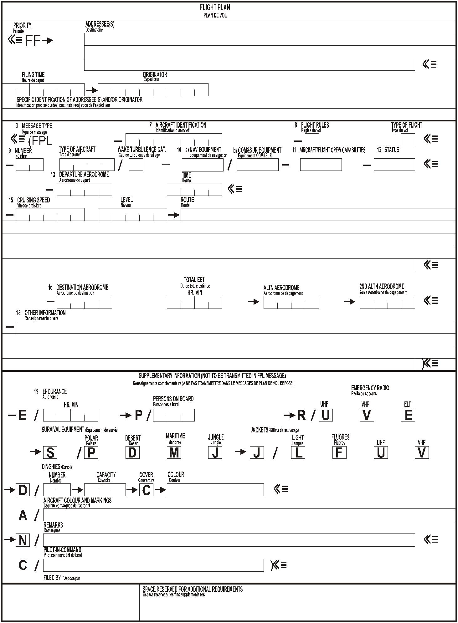 The standard flight plan (FPL) format.